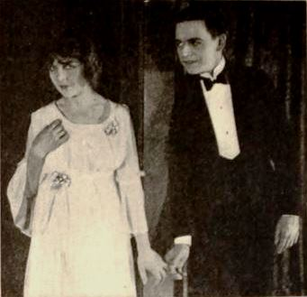 Still from the American comedy film Fuss and Feathers (1918) with Enid Bennett and Douglas MacLean, on page 28 of the December 7, 1918 Exhibitors Herald.